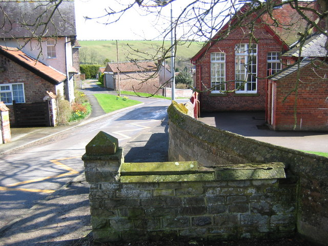 Primary School, Langtoft, East Riding of Yorkshire, England.View east from the church grounds.